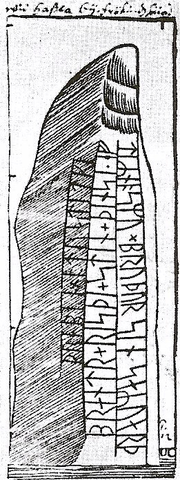 drawing